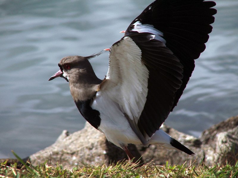 Vanellus chilensis adult showing wing spurs. Brazil.